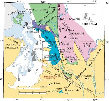 Location of the Straight Creek, Darrington—Devils Mountain Fault, Olympic—Wallowa Lineament, and other related faults and geological formations of the North Cascades (NW Washington state).